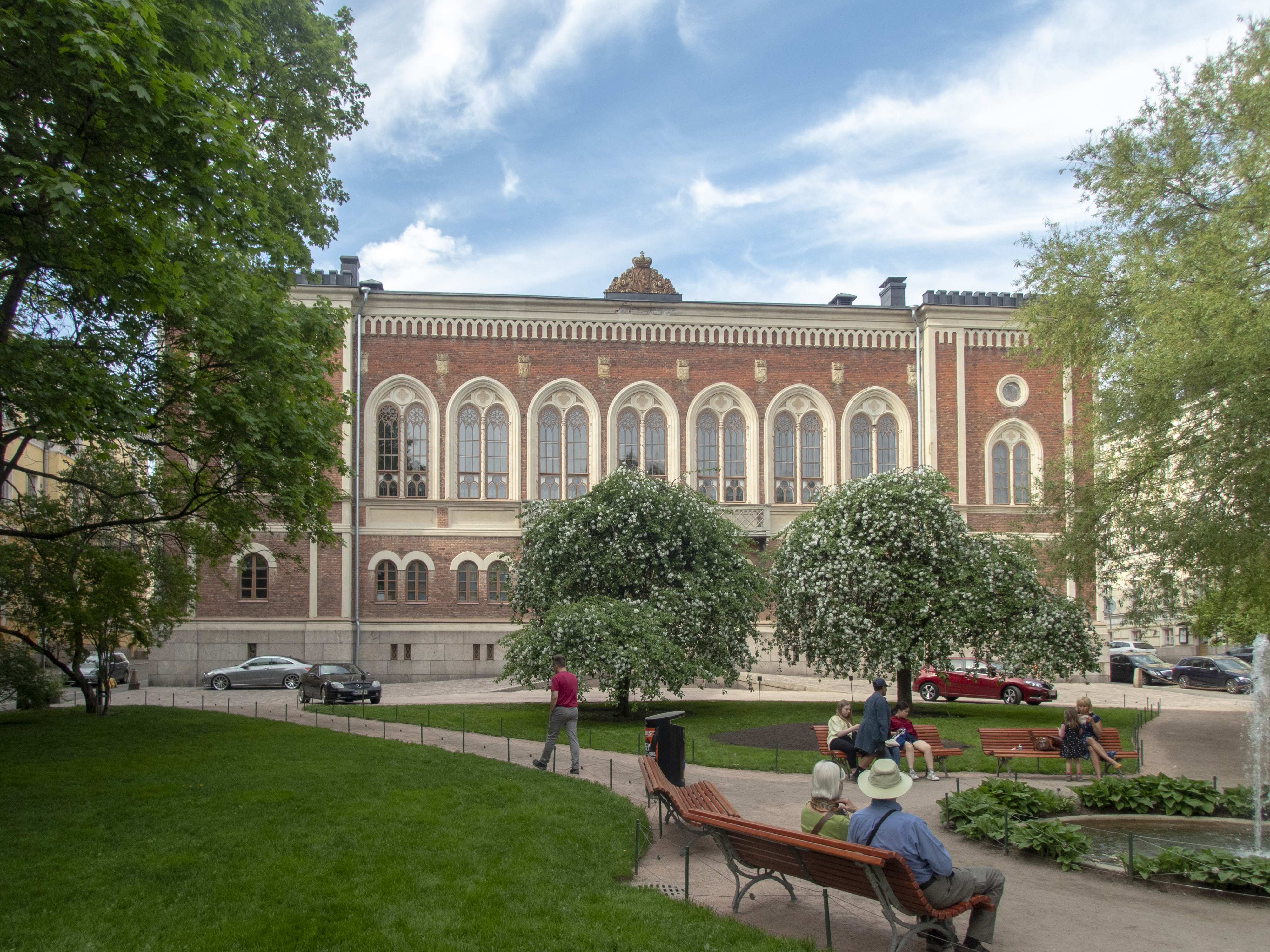 Ritarihuone - House of Nobility of Finland. Built in 1862 Architect Georg Theodor Chiewitz.